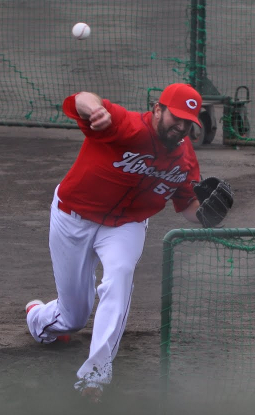 Kam Mickolio, pitcher of the Hiroshima Toyo Carp, at Okinawa Municipal Baseball Stadium.